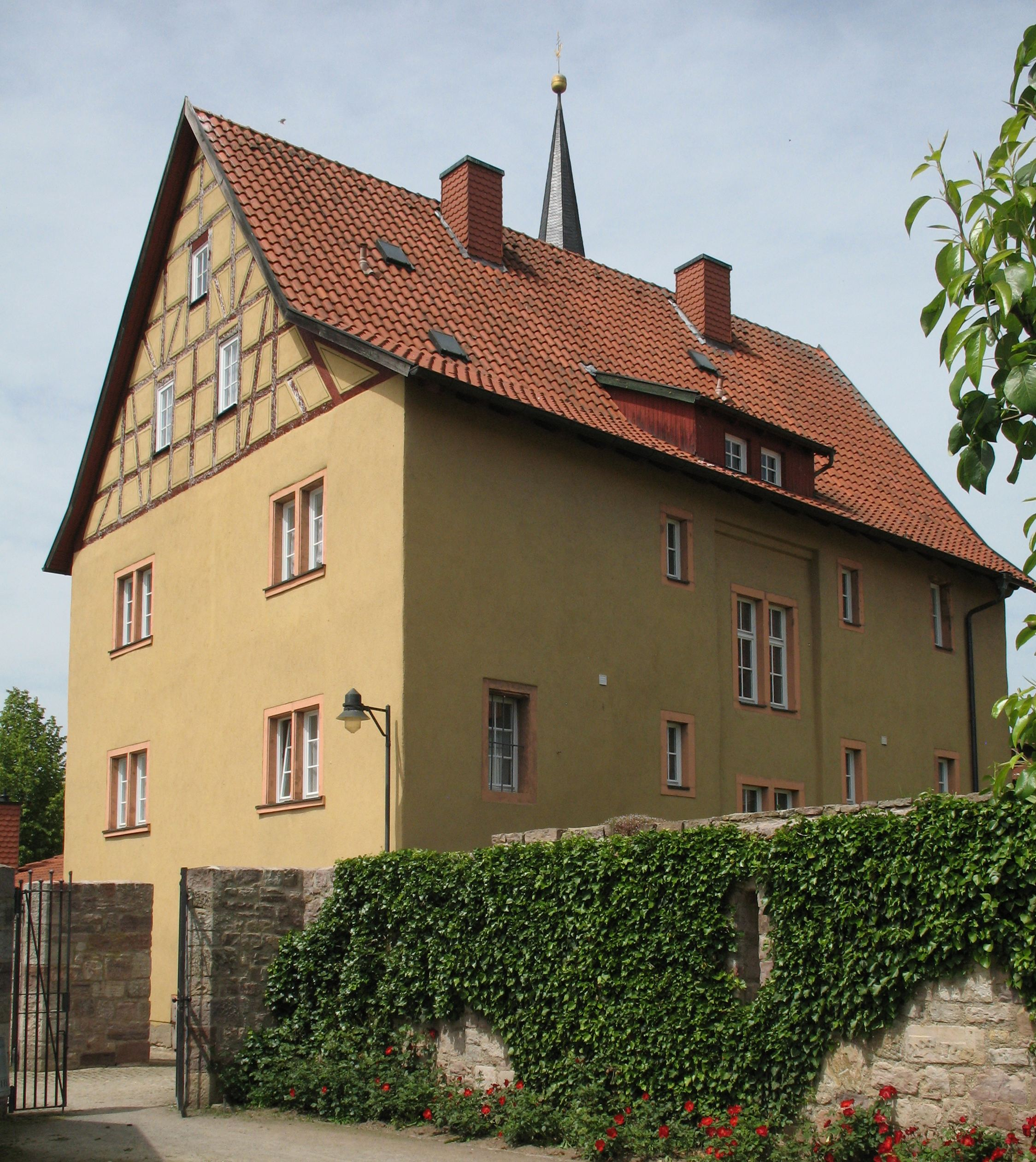 Rectory in Hammelburg in Bavaria, Germany